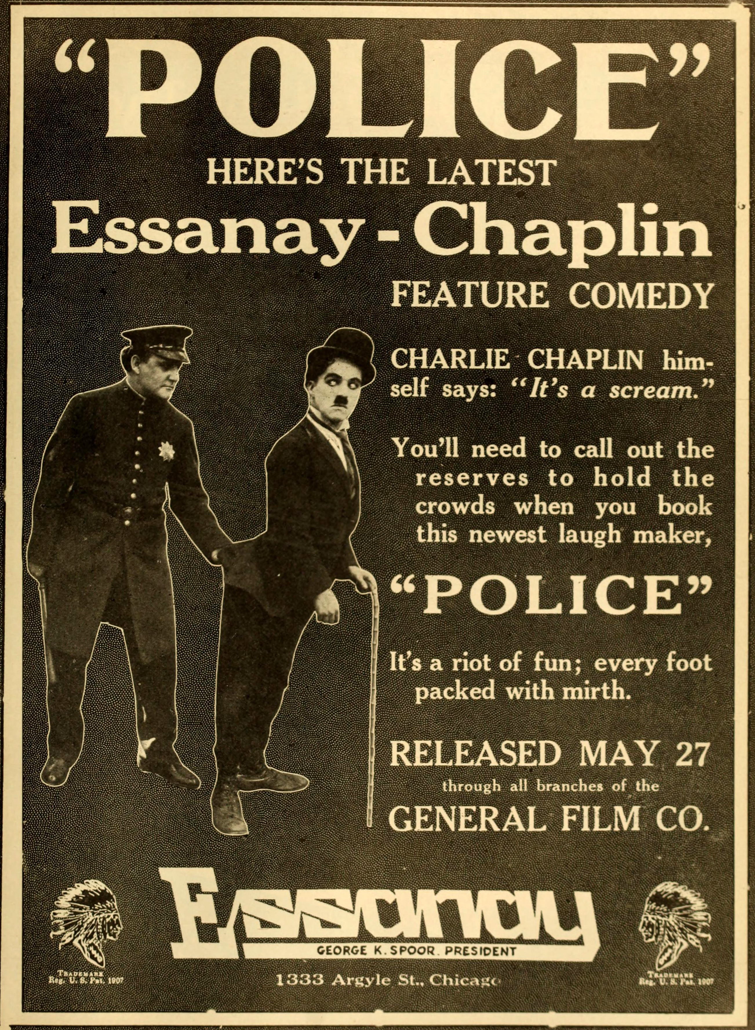 Advertisement in The Moving Picture World for the American comedy film Police (1916).